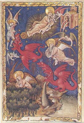 Flemish Apocalypse (Bibliothèque Nationale de France Paris; MS. néerlandais 3), Woman in Childbed presenting her Child to an Angel, Book of Revelation Chapter 12